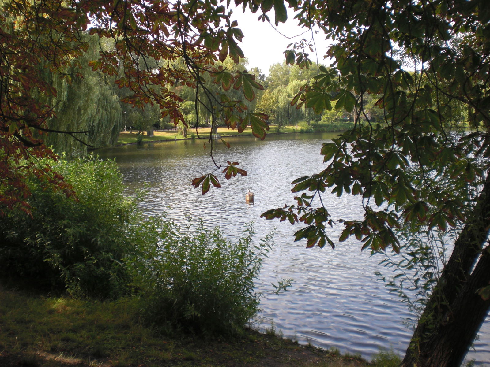 South shore of the Schäfersee (Shepherd's lake)